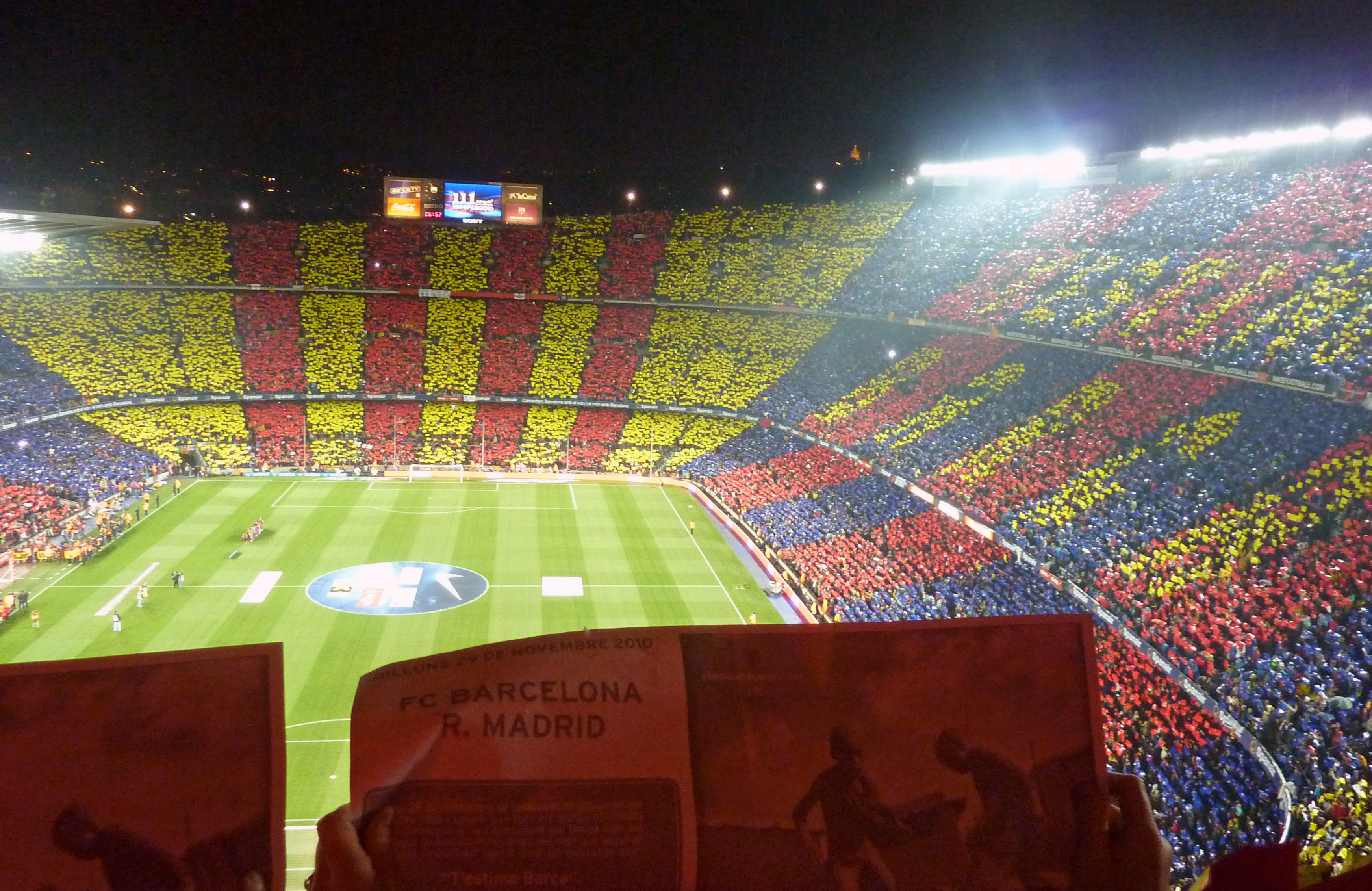 FC Barcelona - Real Madrid 5:0 29. November 2010 Camp Nou